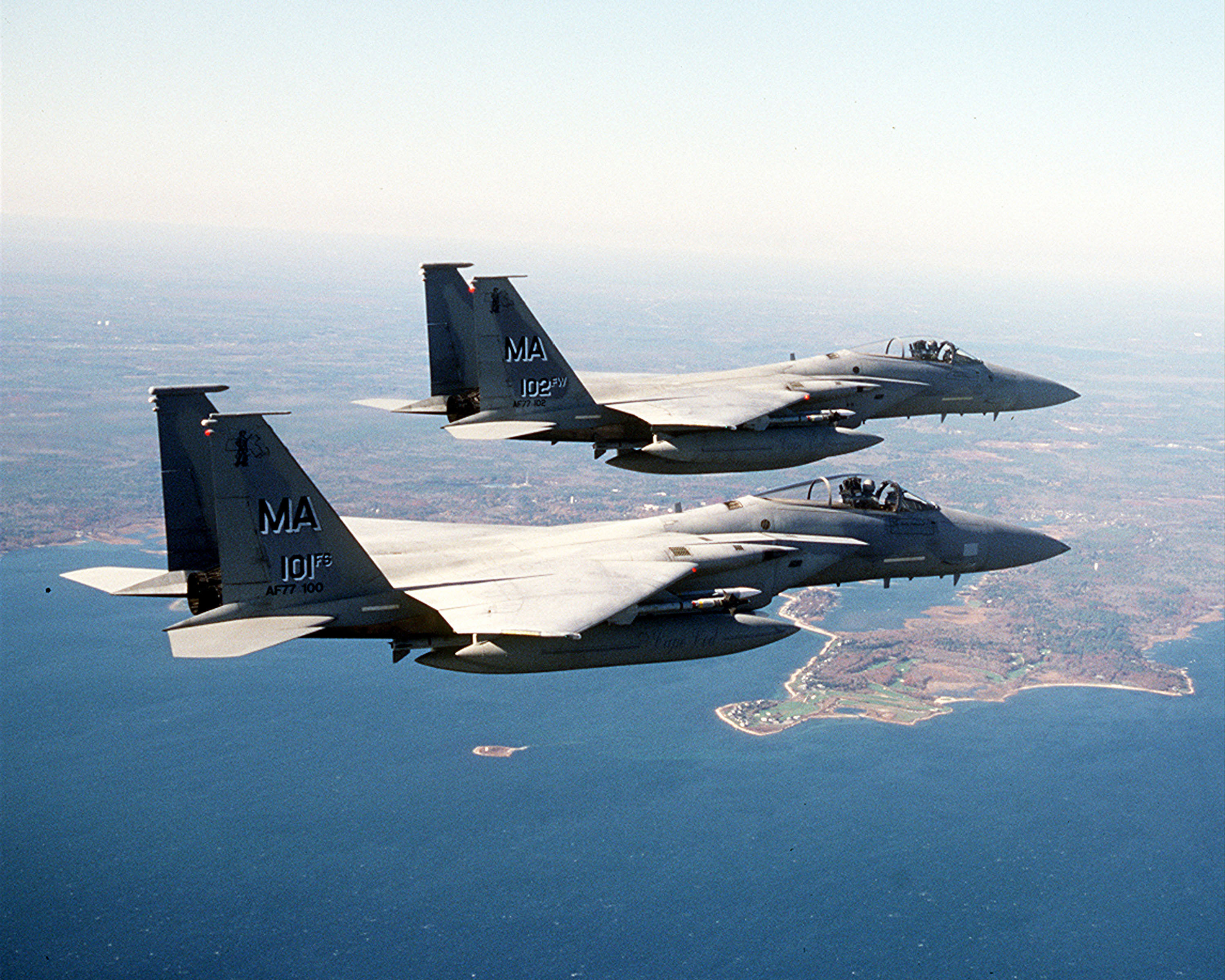 OPERATION NOBLE EAGLE -- Two F-15 Eagles from the Massachusetts Air National Guard's 102nd Fighter Wing fly a combat air patrol mission over New York City in support of Operation Noble Eagle. North American Aerospace Defense Command has more than 100 ANG and Air Force Reserve fighters from 26 locations providing homeland defense, with another 100 fighters backing them up. (U.S. Air Force photo by Lt. Col. Bill Ramsay)